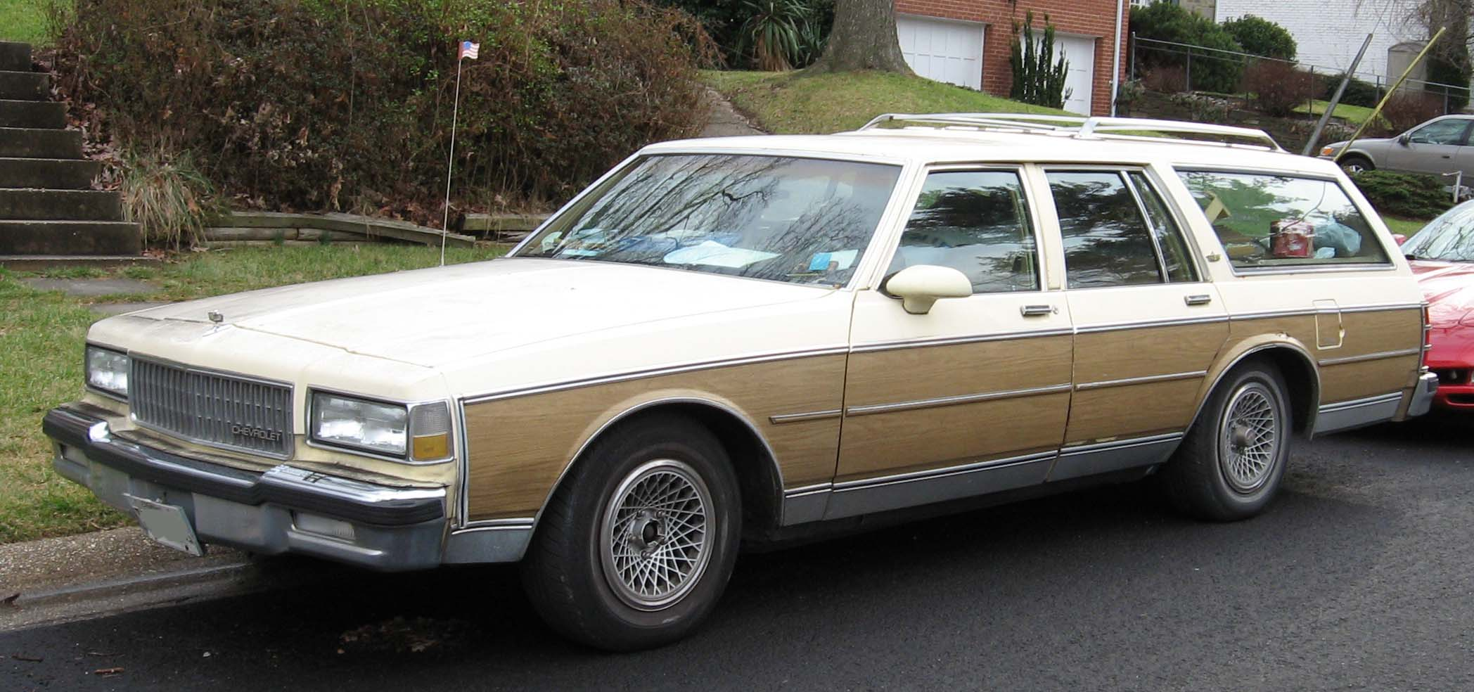 1987-1990 Chevrolet Caprice wagon photographed in USA.